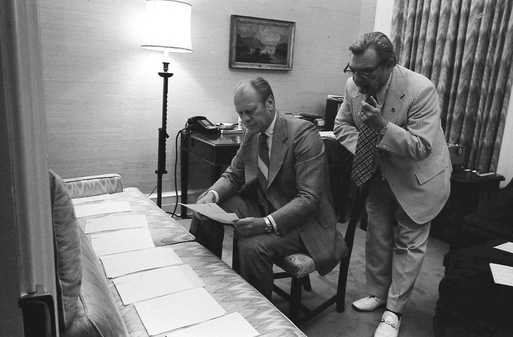 Photograph of President Ford and Robert Hartmann looking over paperwork concerning the selection of a new Vice President.